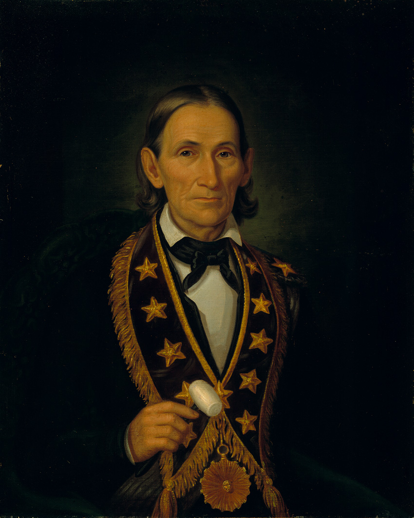 Portrait of Thomas Claiborne in Masonic Grand Master of Tennessee regalia.